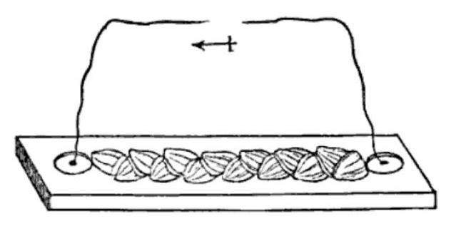 Frog battery consisting of a series of half-thighs of frogs